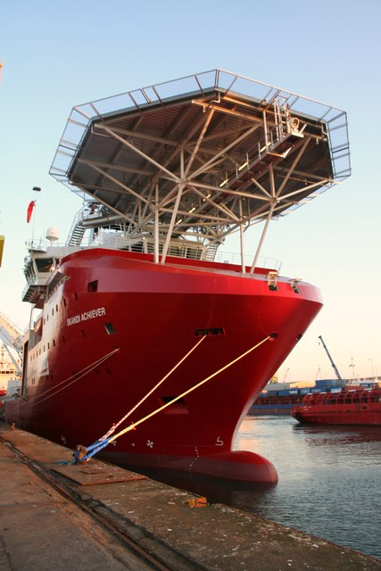 Skandi Achiever Aberdeen harbour's main business is oil related. Of the vessels in port the Achiever stands proud. A DSV, or diving support vessel, she stands out from the run of the mill, her prow topped by the helideck. She was photographed in the final stages of fit-out prior to a North Sea diving campaign.